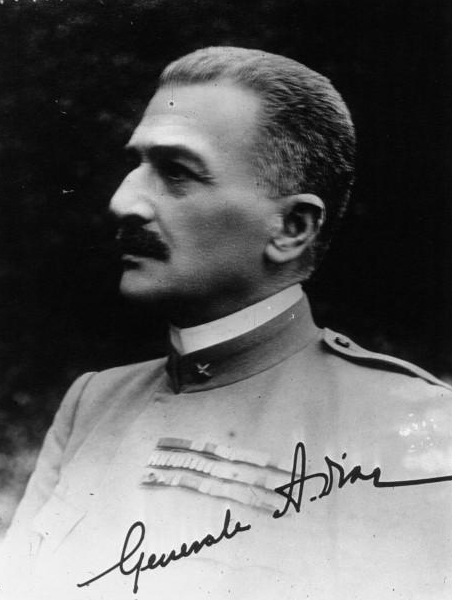 Italian general Armando Diaz (1861-1928).